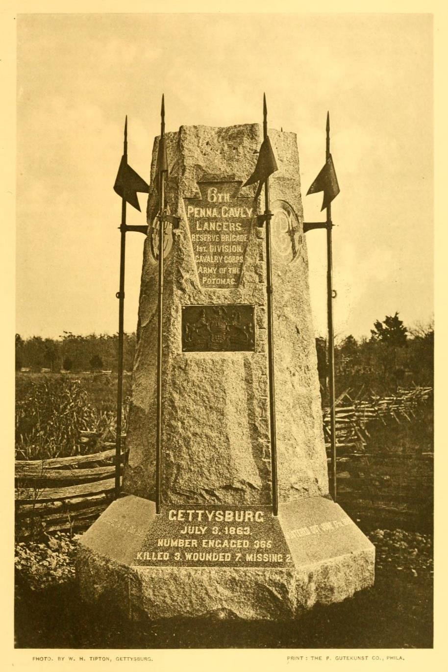 6th Pennsylvania Cavalry Monument, Gettysburg Battlefield, Frank Furness, designer.